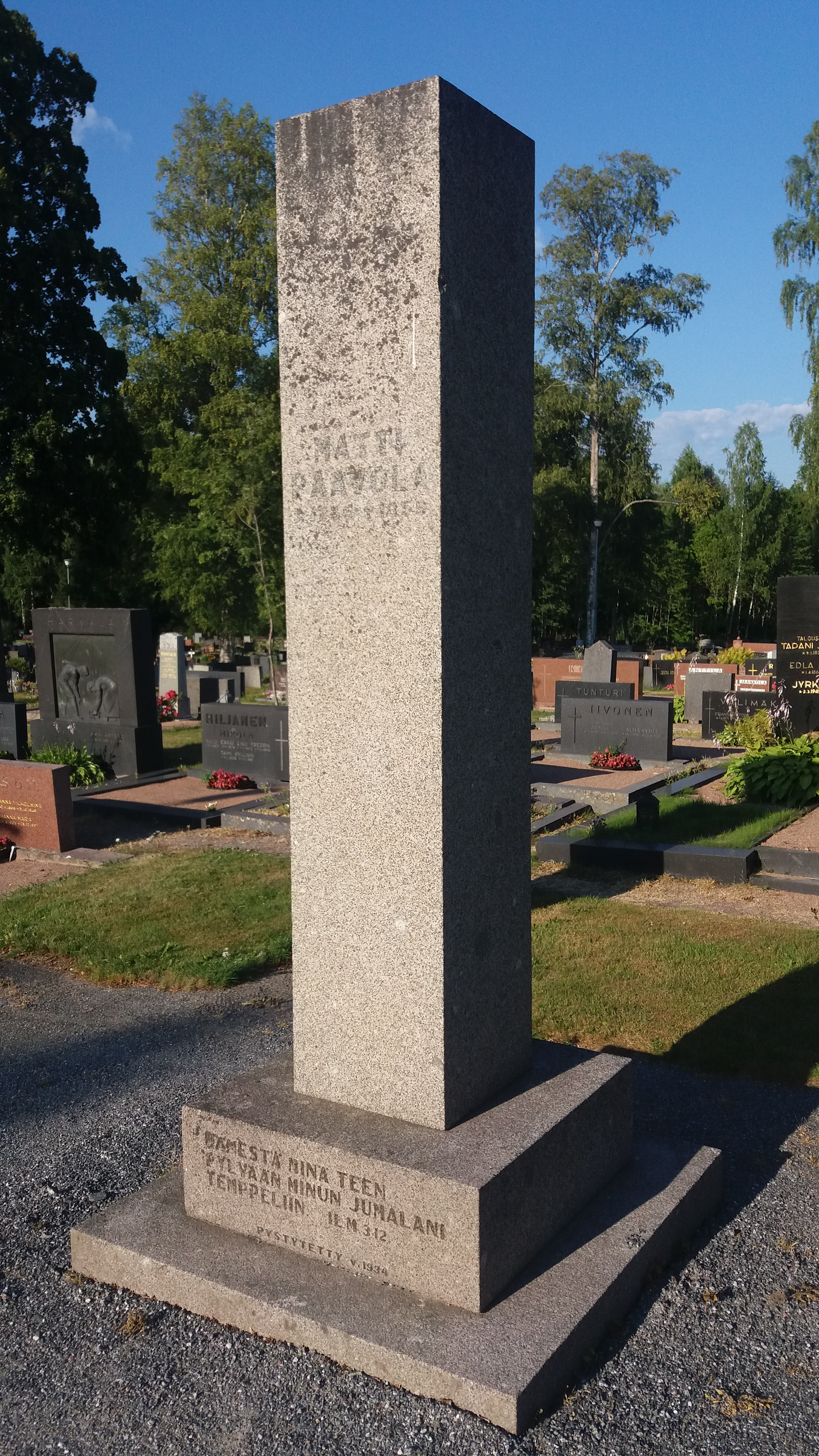 Memorial of the Finnish preacher Matti Paavola (1786-1859) in the Nakkila graveyard. Monument was erected in 1934.